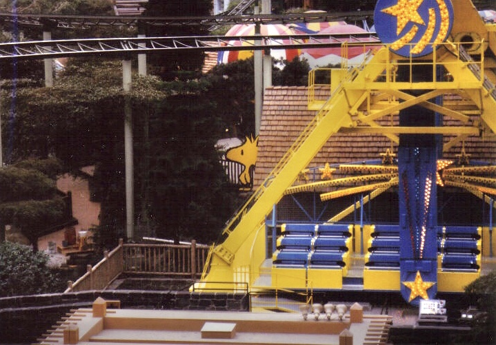 Taken by user: 53180 on February 18, 2004